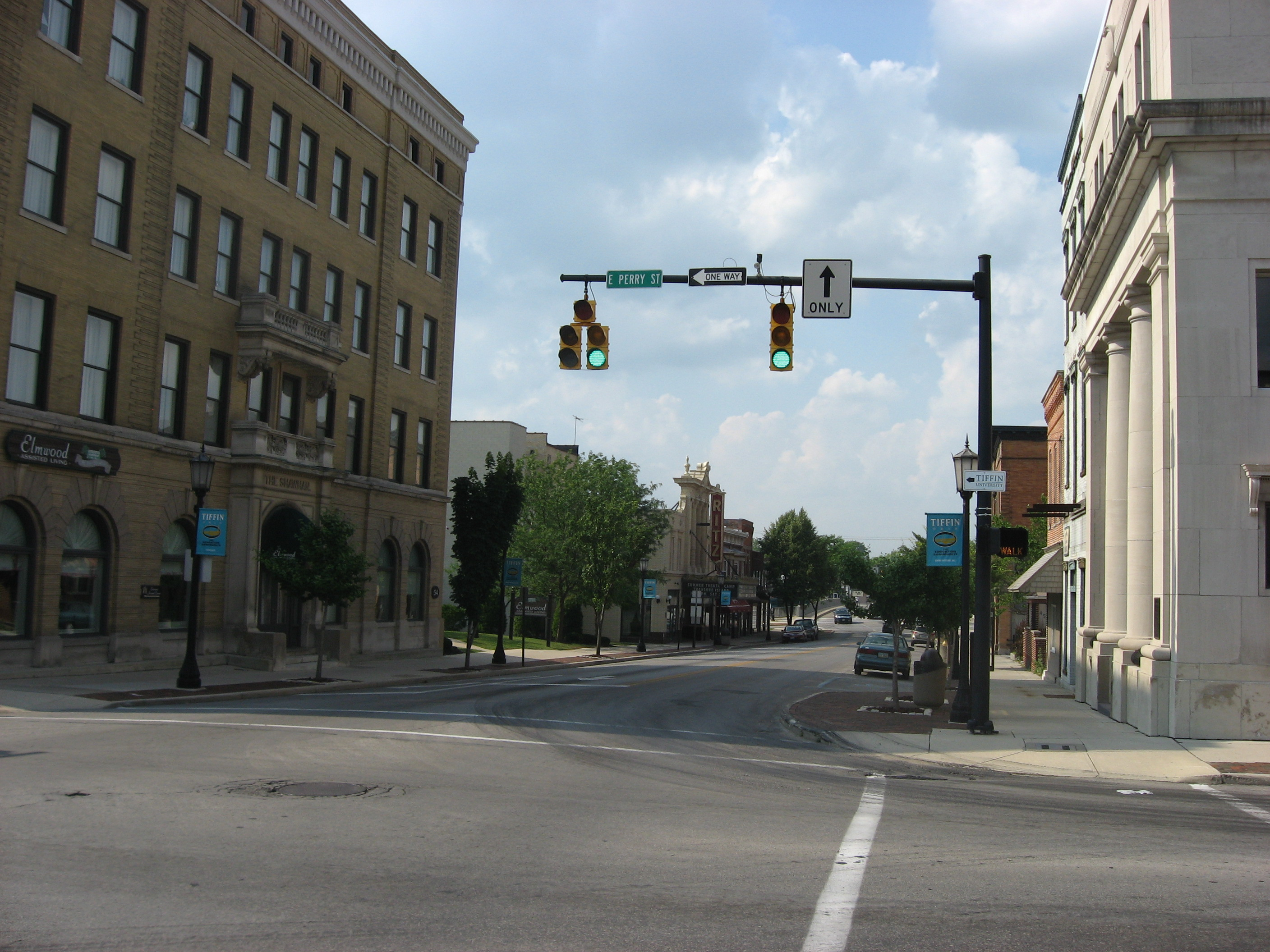 Buildings on Washington Street (State Route 100) in downtown Tiffin, Ohio, United States, seen from the Perry Street intersection. The block is part of the Downtown Tiffin Historic District, a historic district that is listed on the National Register of Historic Places.